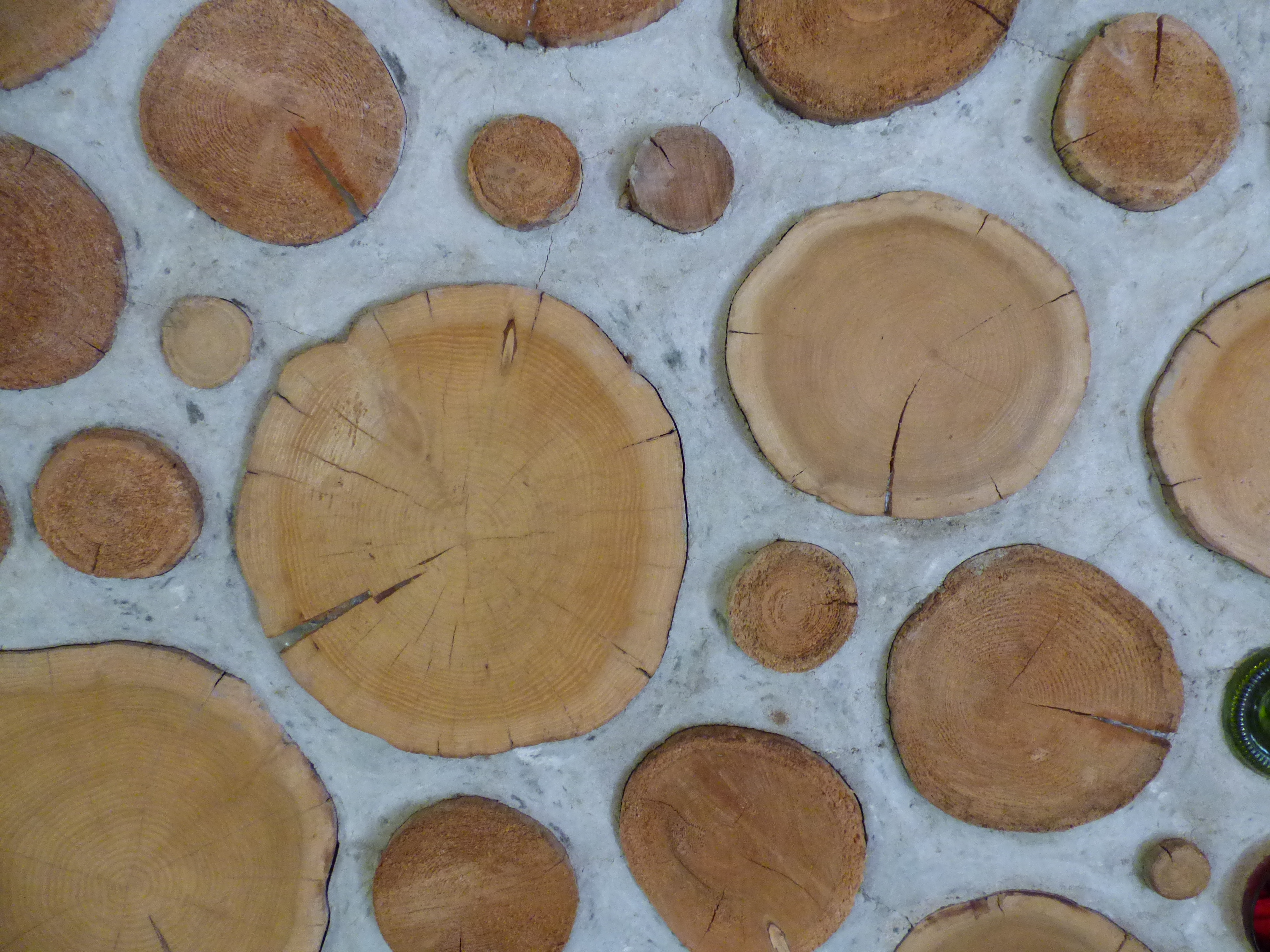 A built section of cordwood masonry wall. Cut log ends protrude slightly from the pointed mortar join. Earthwood Building School, 2016. (source: ).